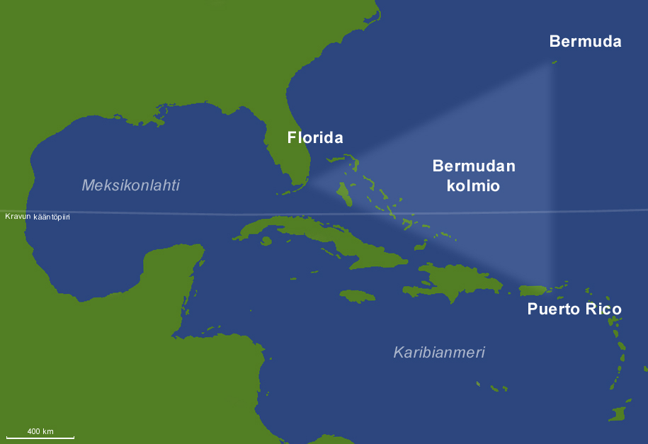 Map of the Bermuda triangle